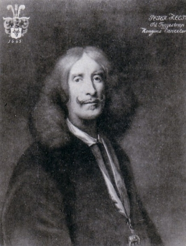 Peder Frederiksen Reedtz, til Tygestrup , lived 1614-1674